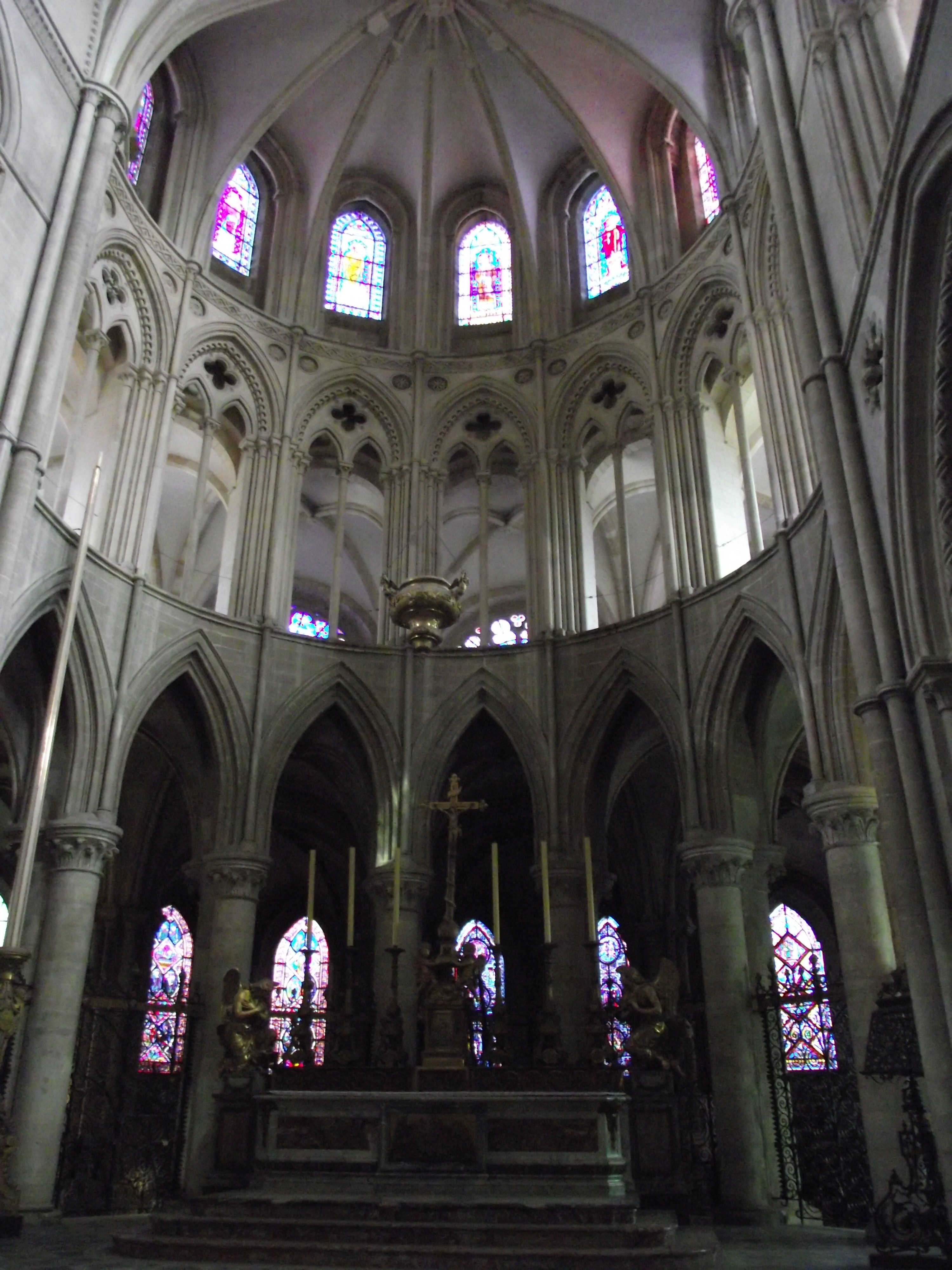 Caen, Saint Stephen's Church, XI-XIII Century